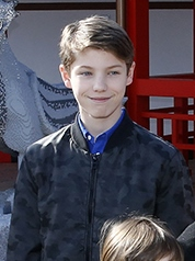 Prince Felix at the opening of the area Ninjago World in the amusement park Legoland Billund Resort in Denmark.